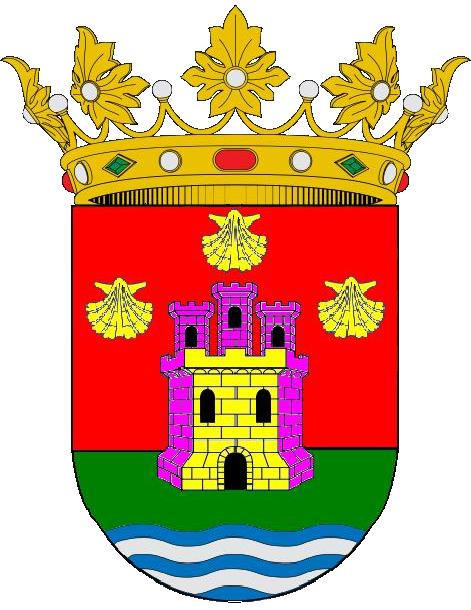 Coat of arms of the city of Santiago del Estero, in the Province with the same name, Argentina.